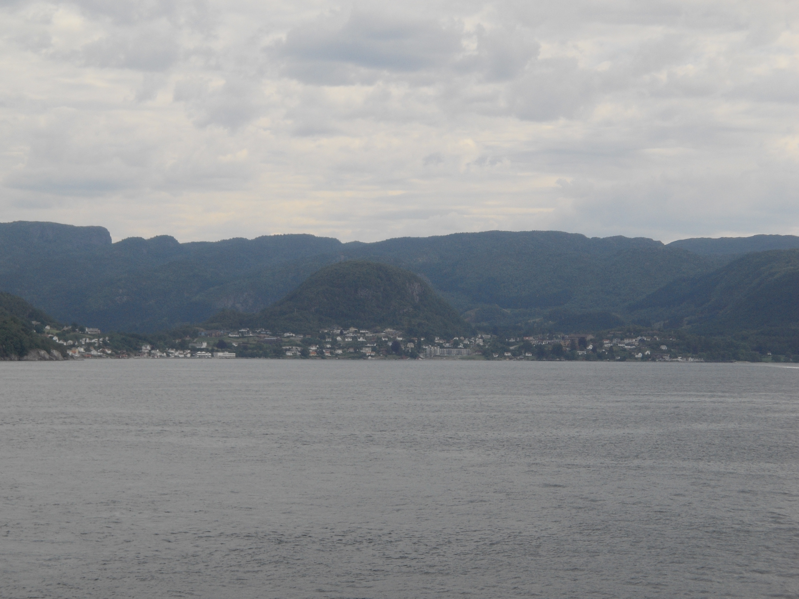 Hjelmelandsvågen, the center of Hjelmeland municipality in Norway.